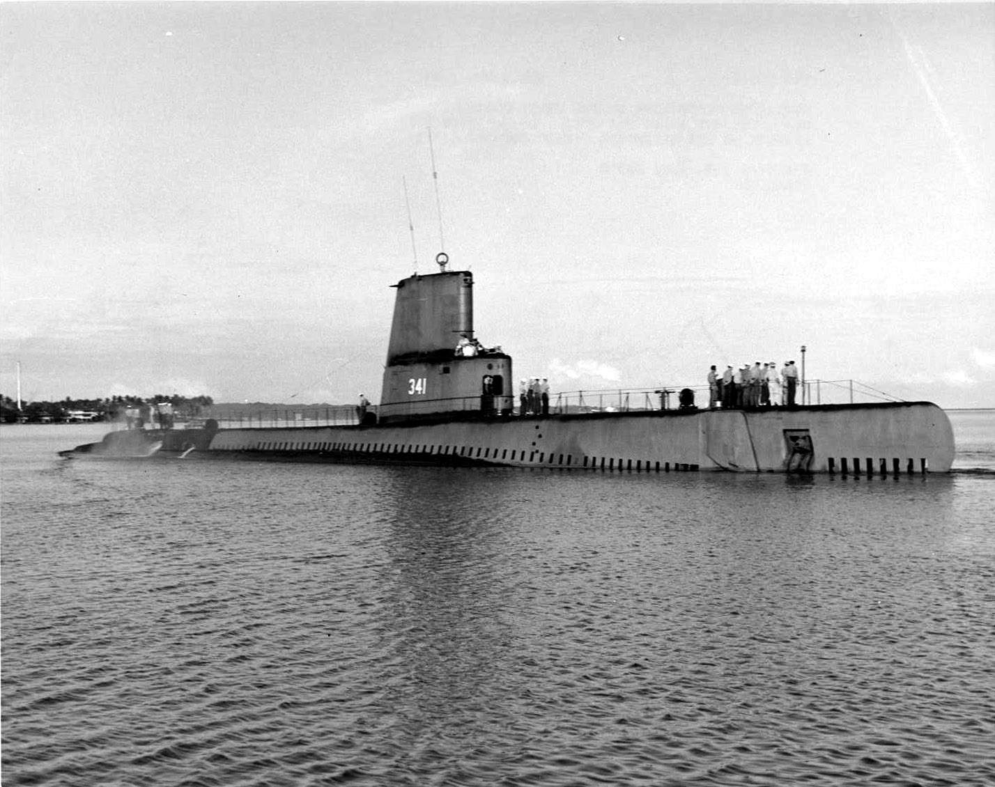 USS Chivo (SS-341), after modernization with the Atlantic Fleet, 1953.